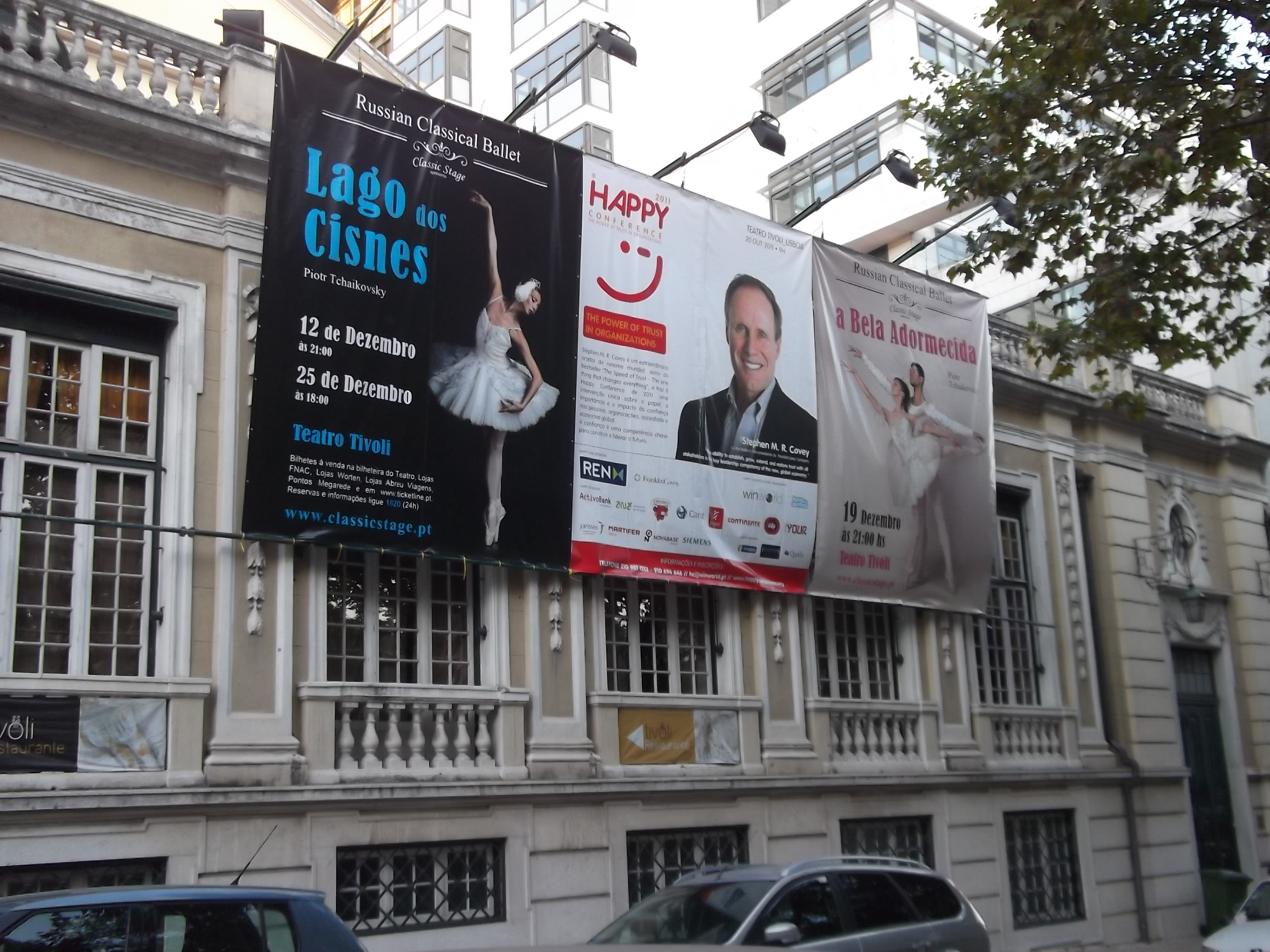 This file was uploaded for Wiki Loves Monuments in Portugal with the unique identifier 74177.